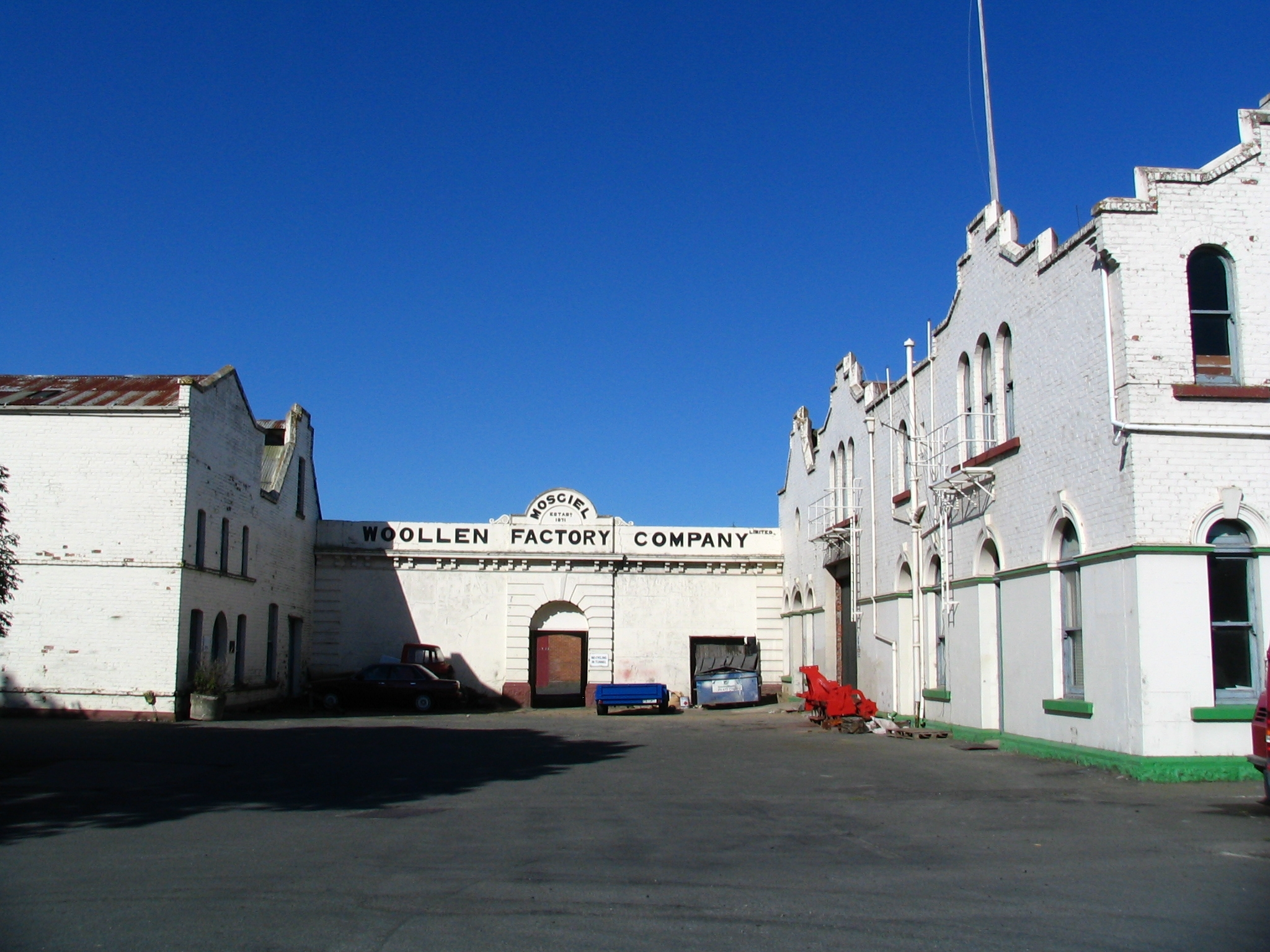 Mosgiel Woollen Factory (former), New Zealand